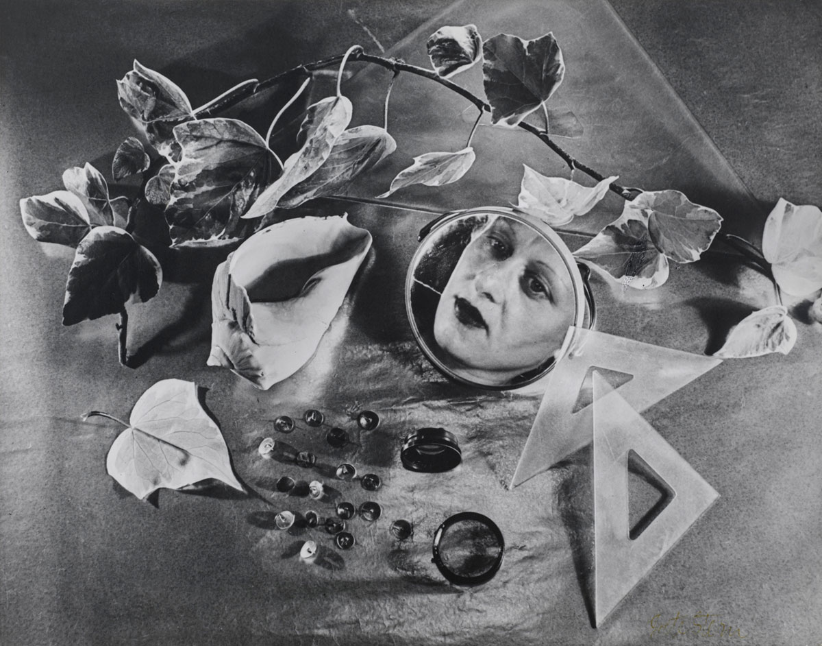 Grete Stern: Self-portrait, 1943. Gelatin silver print, printed 1958, 11 x 8 11/16″ (28 x 22 cm). Estate of Horacio Coppola, Buenos Aires